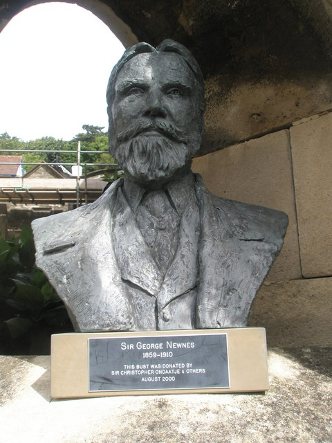 Bust of Sir George Newnes by the town hall